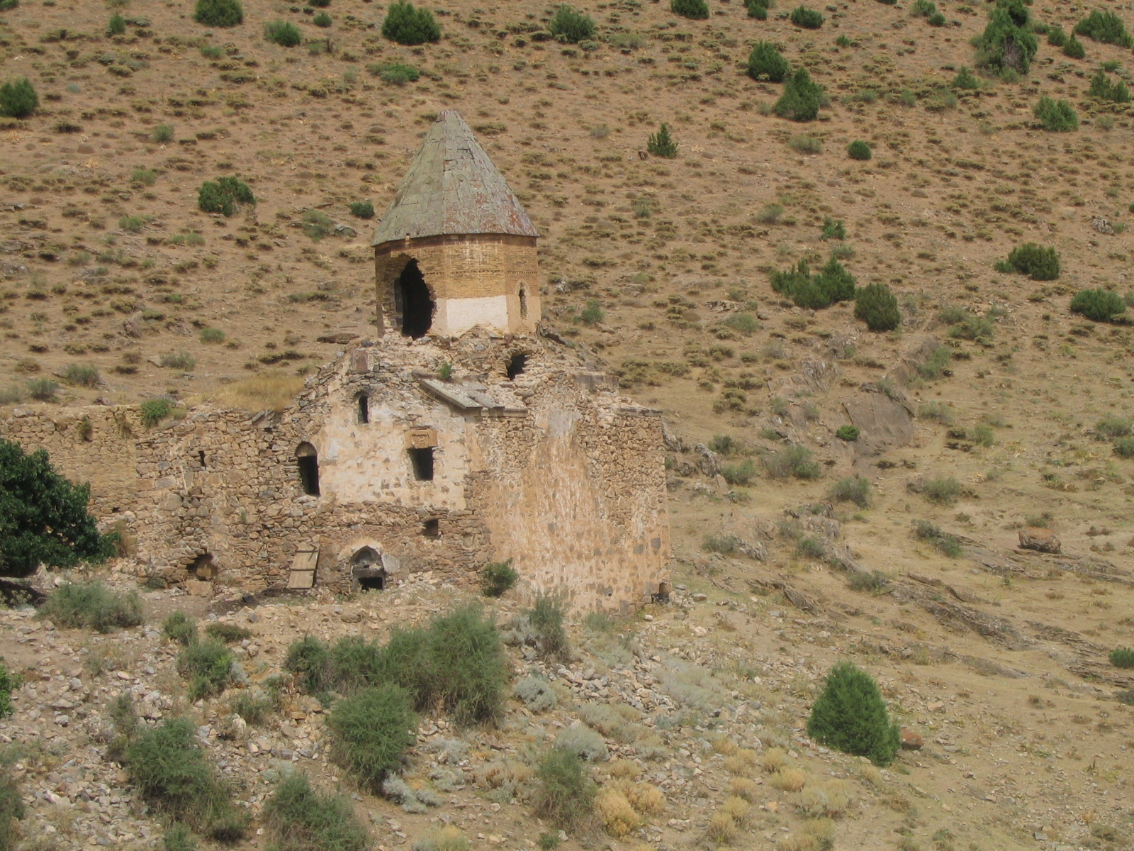 The 10th century Armenian monastery of Karmravank on a hill next to Lake Van, Armenia (Armenian Highland).